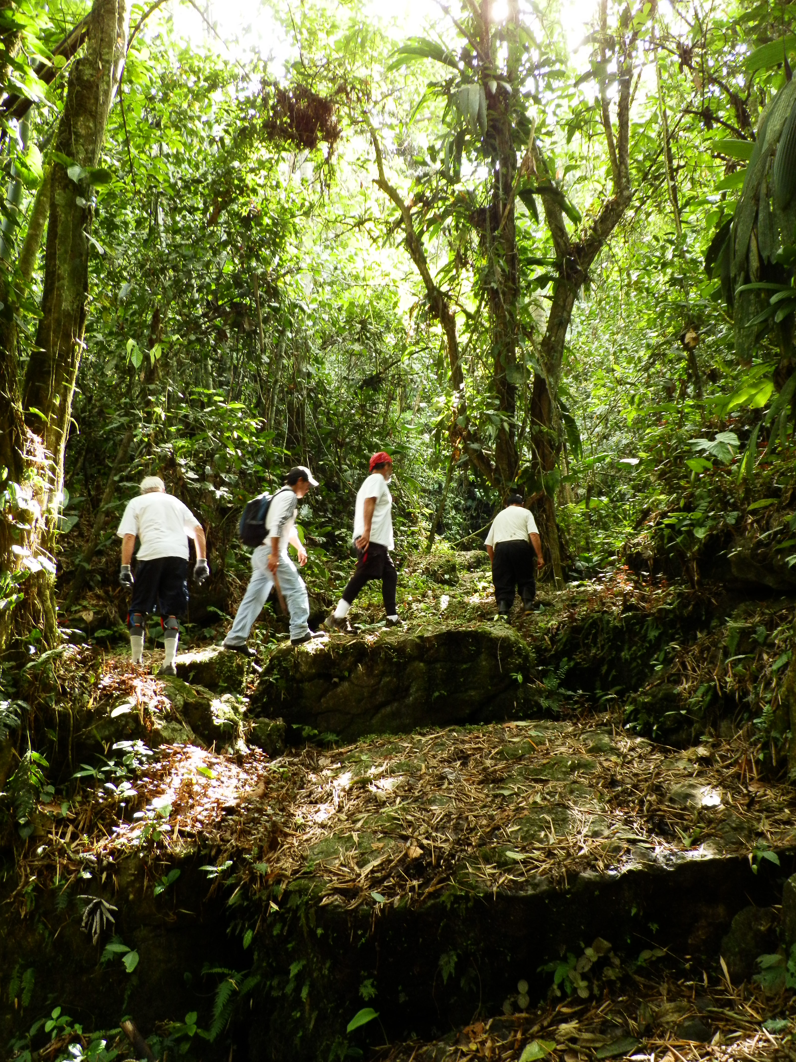 Hike to the entrance of the Caverna de las Cascadas or Cave of Waterfalls in Logroño, Ecuador